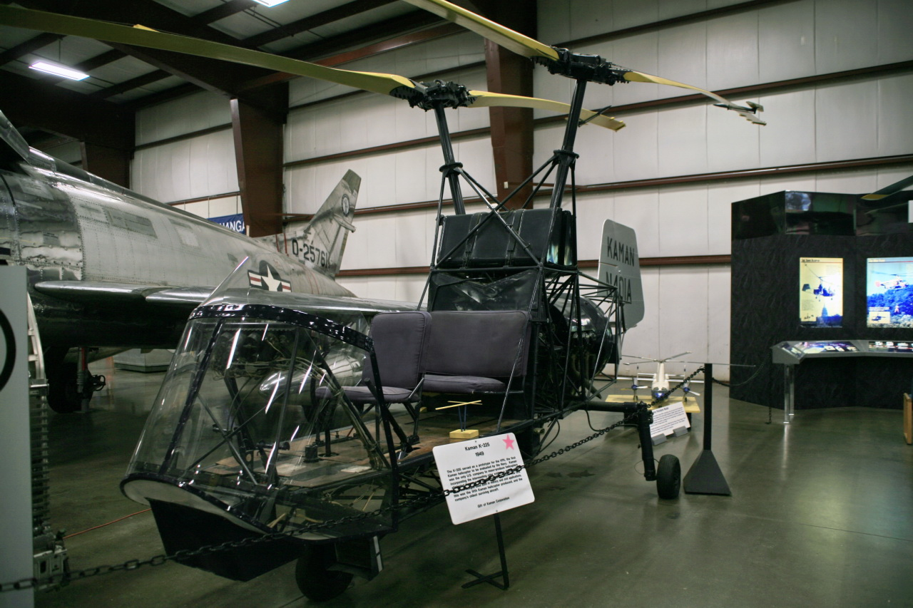 Kaman K-225 - When you read of aircraft prototypes costing millions of dollars, remember that high costs and gold-plated airframes are not always the rule. Sometimes they are assembled just enough to prove a concept, as in the case of this bare-bones aircraft.